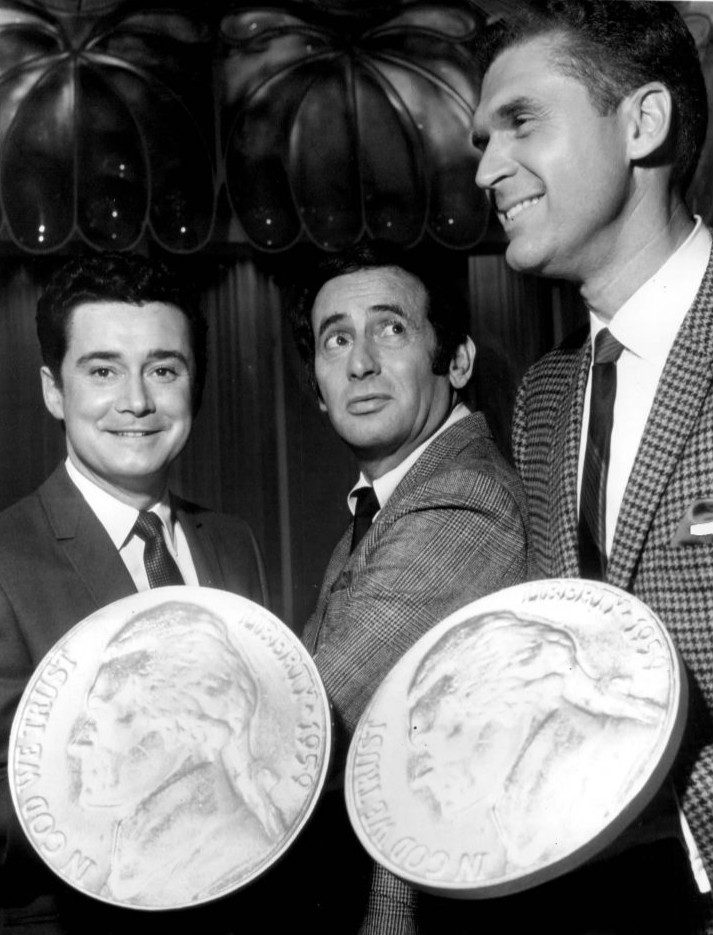 Publicity photo of Regis Philbin, Joey Bishop and Johnny Mann from the television program The Joey Bishop Show (talk show). Mann was the musical director for the talk program.